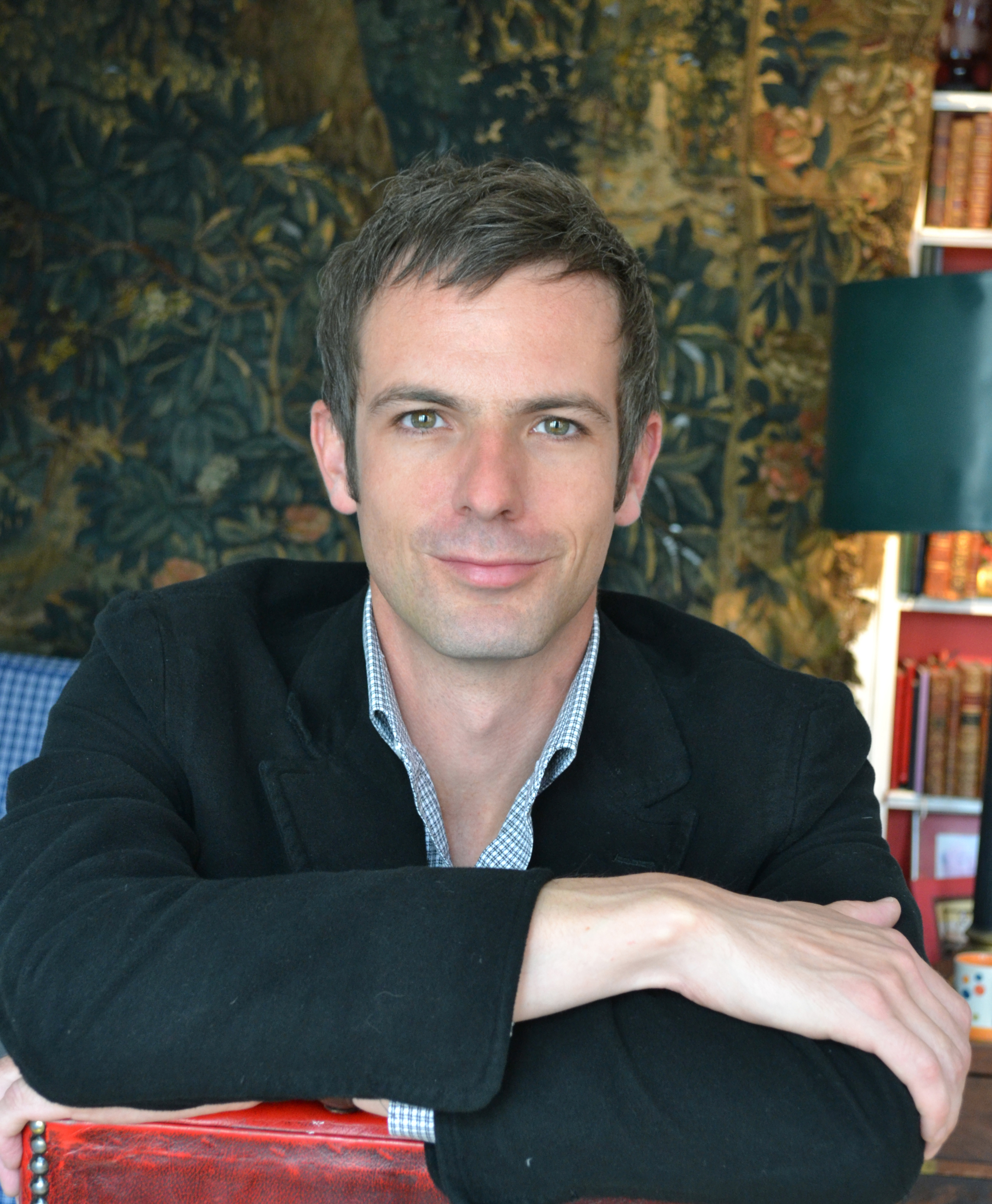 Harry 12th Duke of Grafton taken photographer's studio London